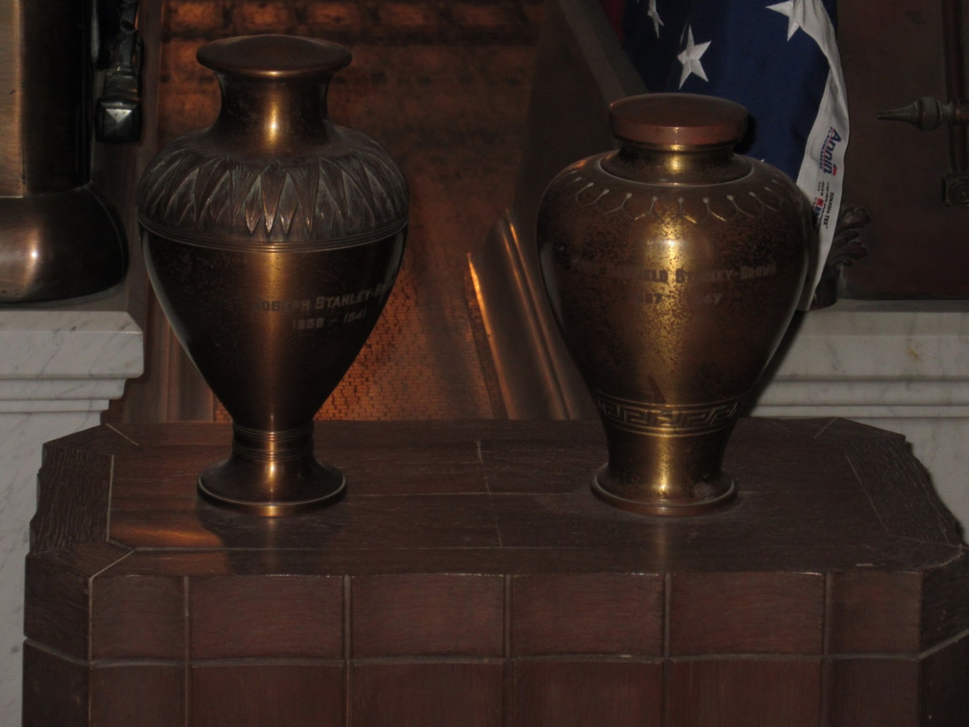 Two bronze urns sit on a table in front of two coffins. The urn on the left is slightly taller than the one on the right.